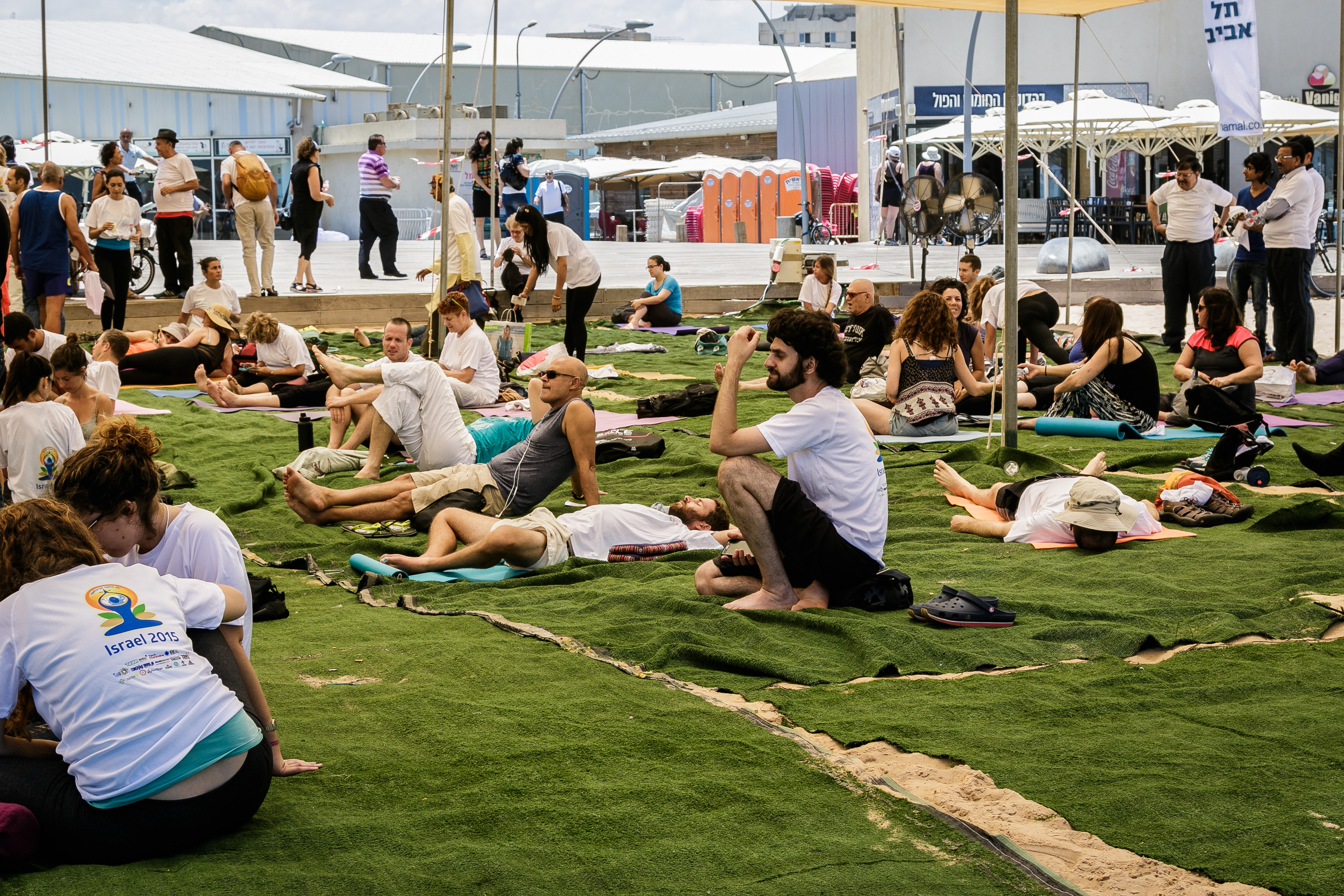 International day of Yoga 2015, Sports in Israel